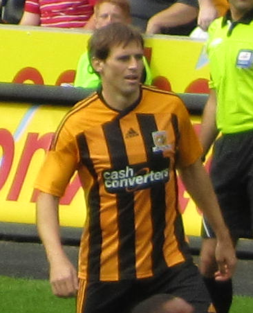 Kevin Kilbane